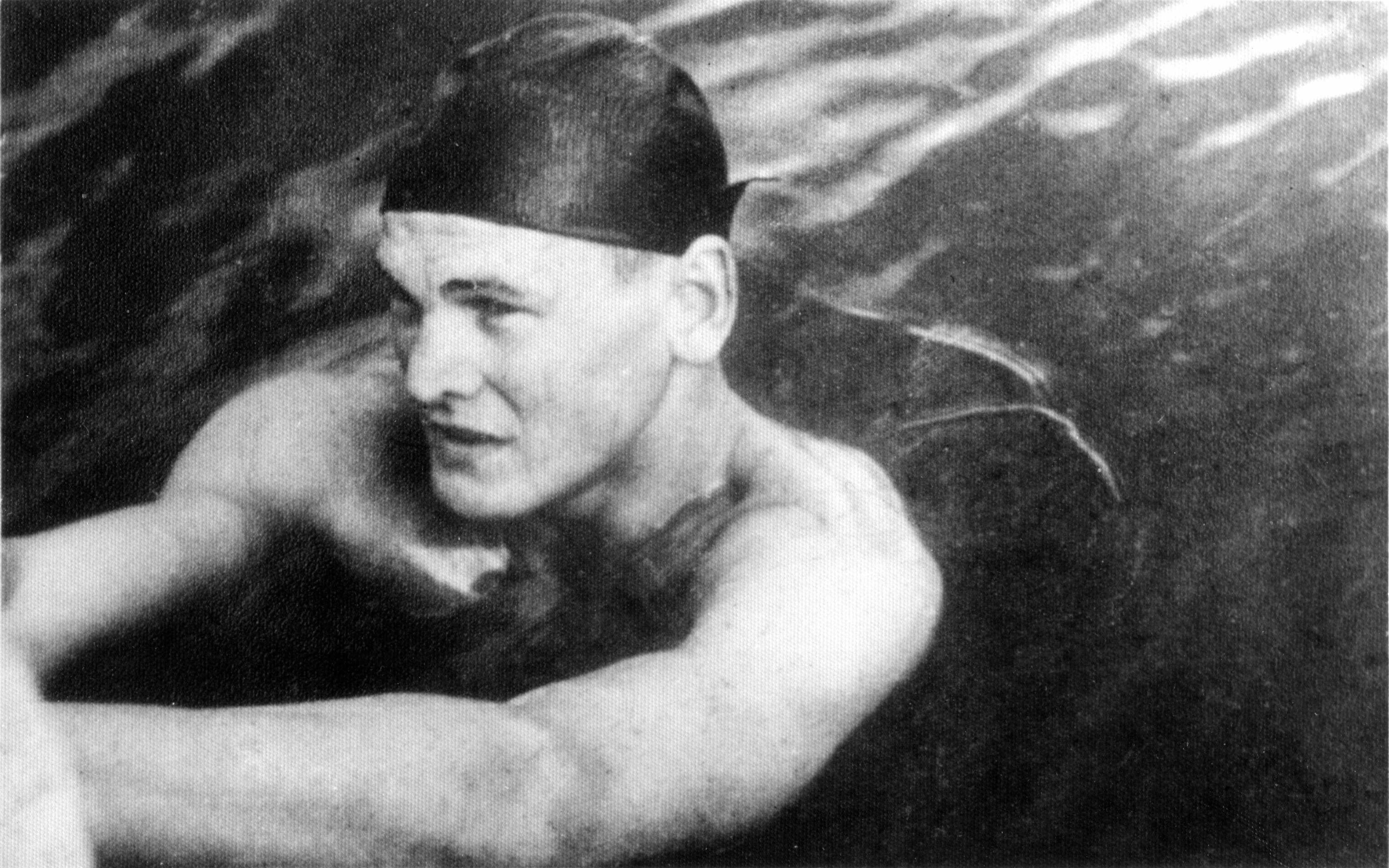 Lithuanian swimmer, freestyle record-holder Jurgis Čerškus in the pool. Kaunas, 1938-1940.